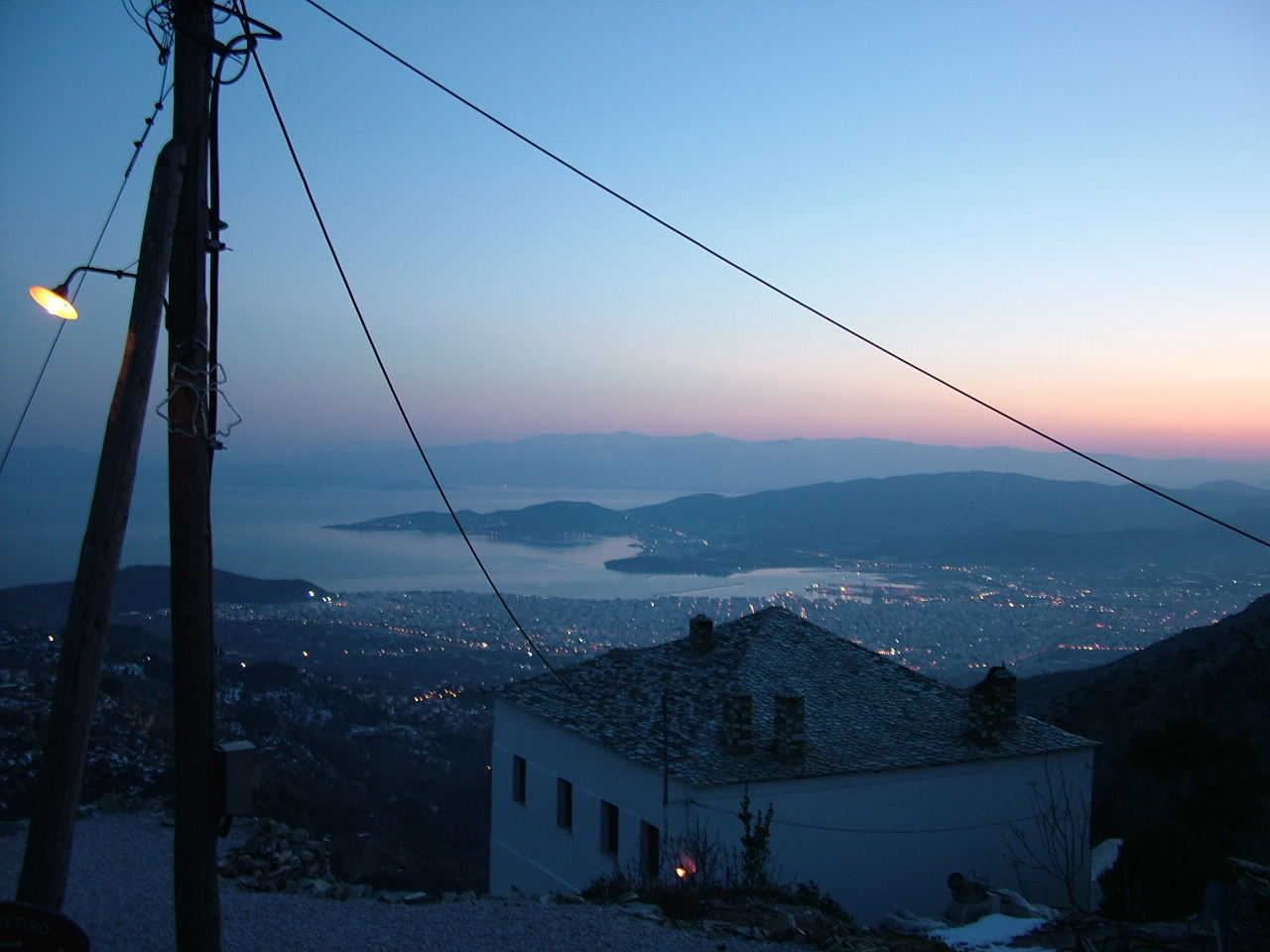 View across the town of Volos, Greece, and the Pagasetic Gulf, seen from Makrinitsa at dusk